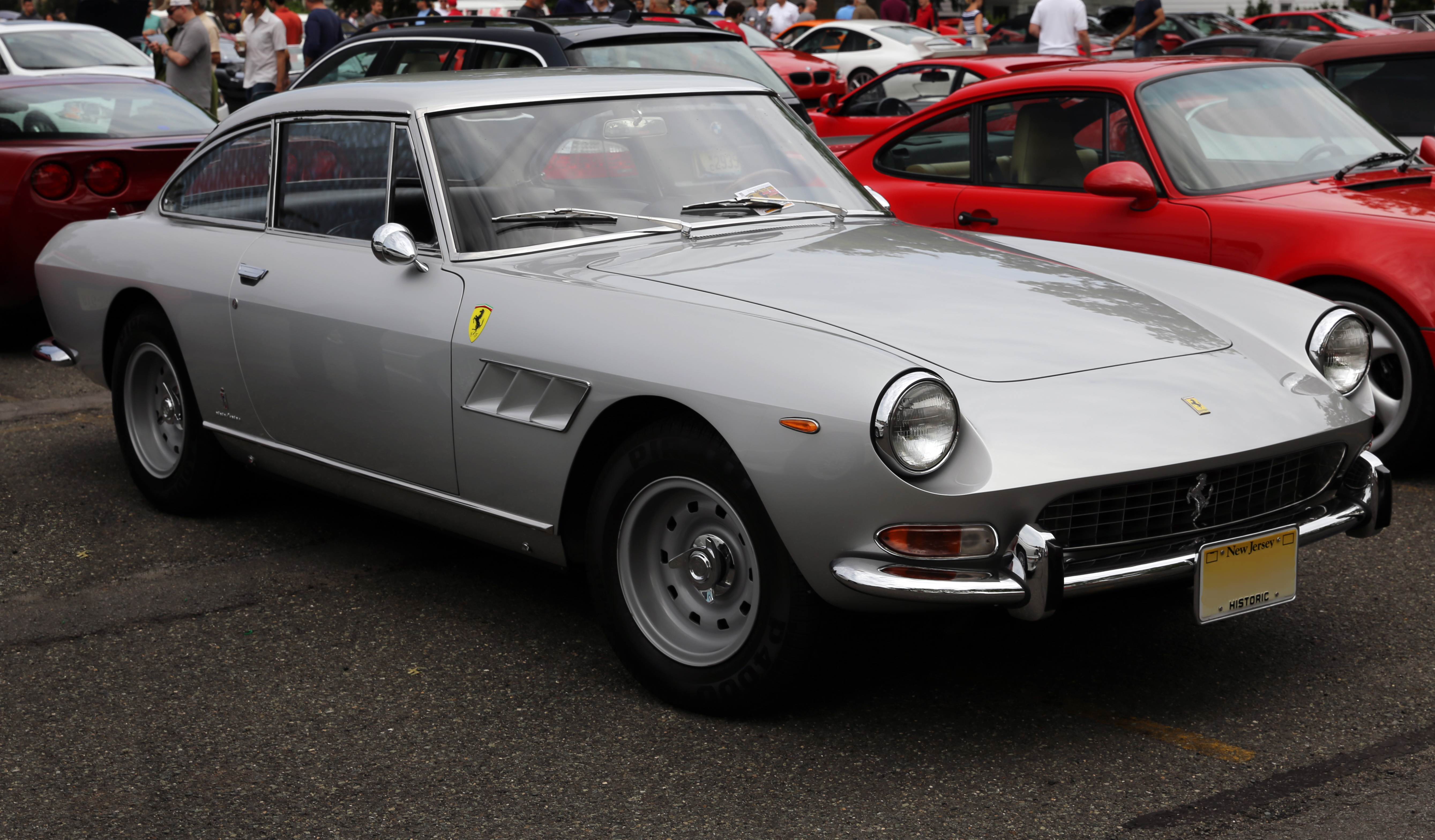 Ferrari 330 GT 2+2, series II.